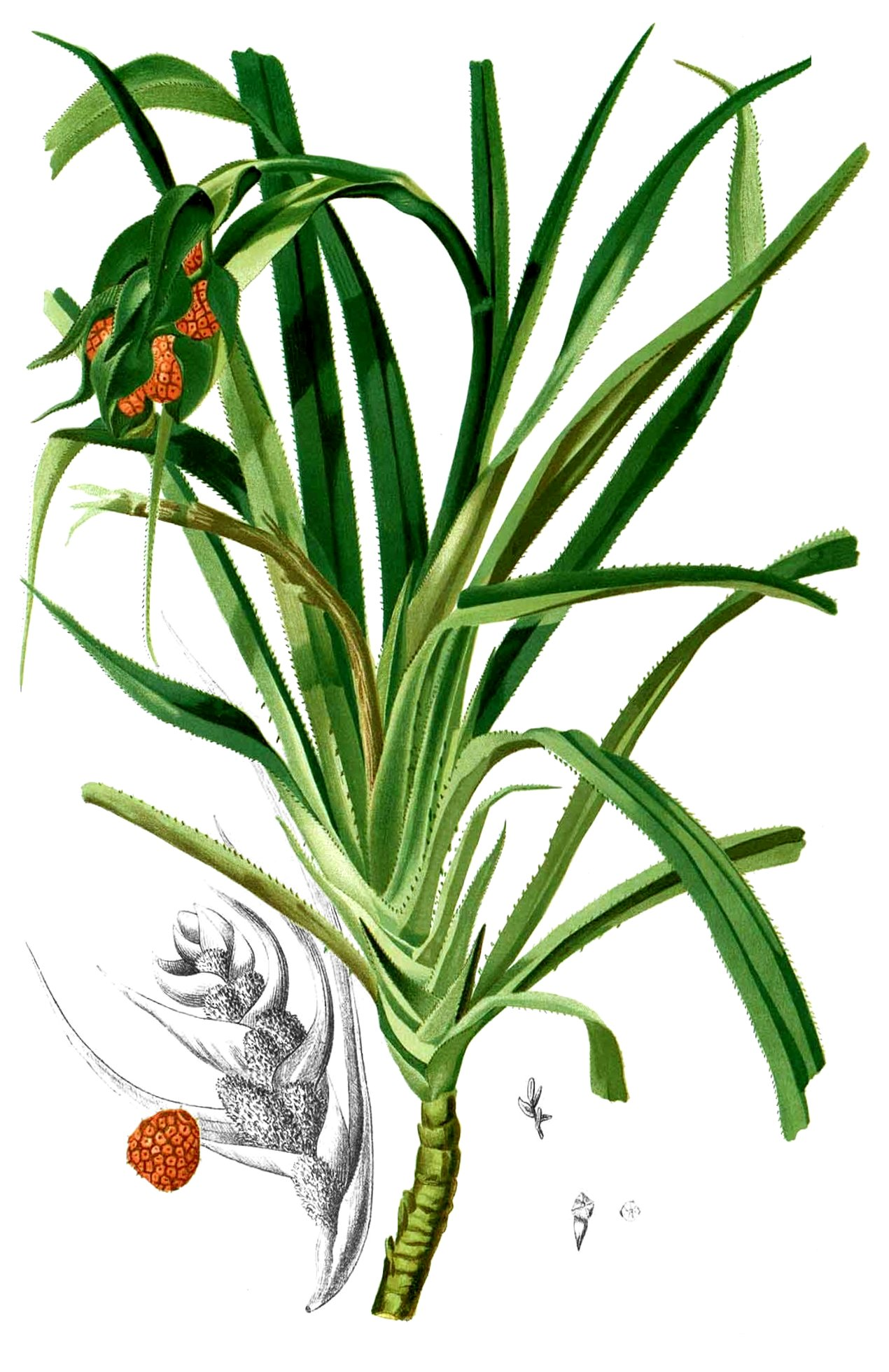 Pandanus humilis, Plate from book